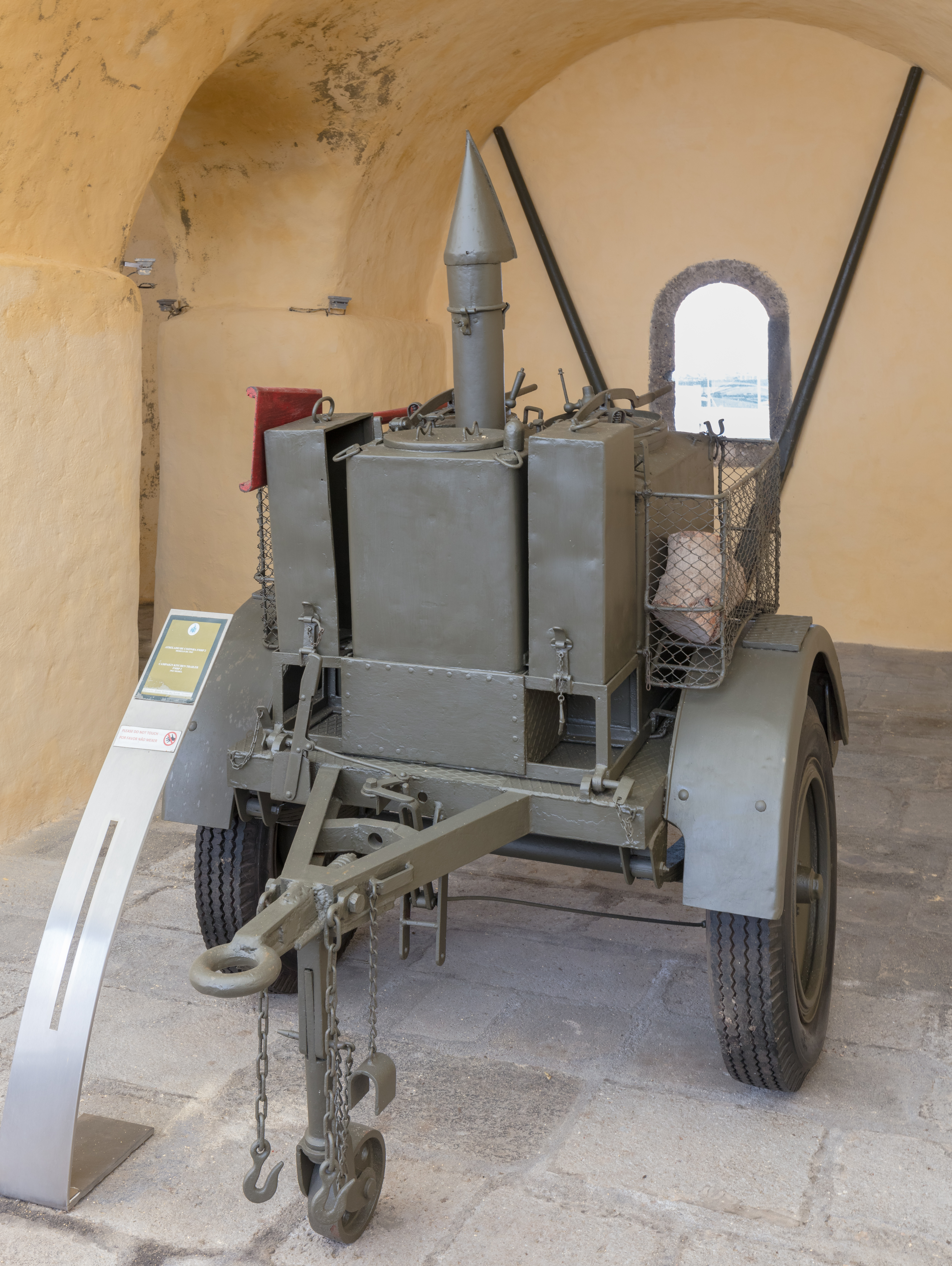 Campaign kitchen trailer, Fort of São Brás, Ponta Delgada, São Miguel Island, Azores, Portugal